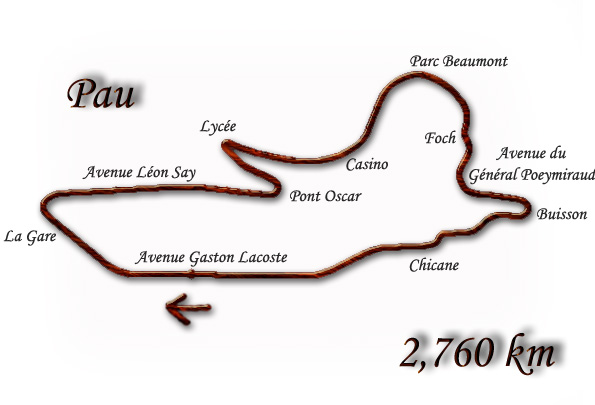 Diagram of the Pau Circuit hosted the Pau Grand Prix in France.